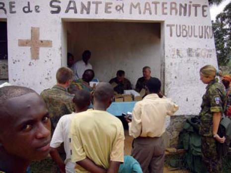 Finnish soldiers participating in the military operation of the European Union in the Democratic Republic of the Congo in 2006. Original Finnish caption: "Finnish contingent in the European Union operation in Congo included 14 soldiers. Picture from a polling place.